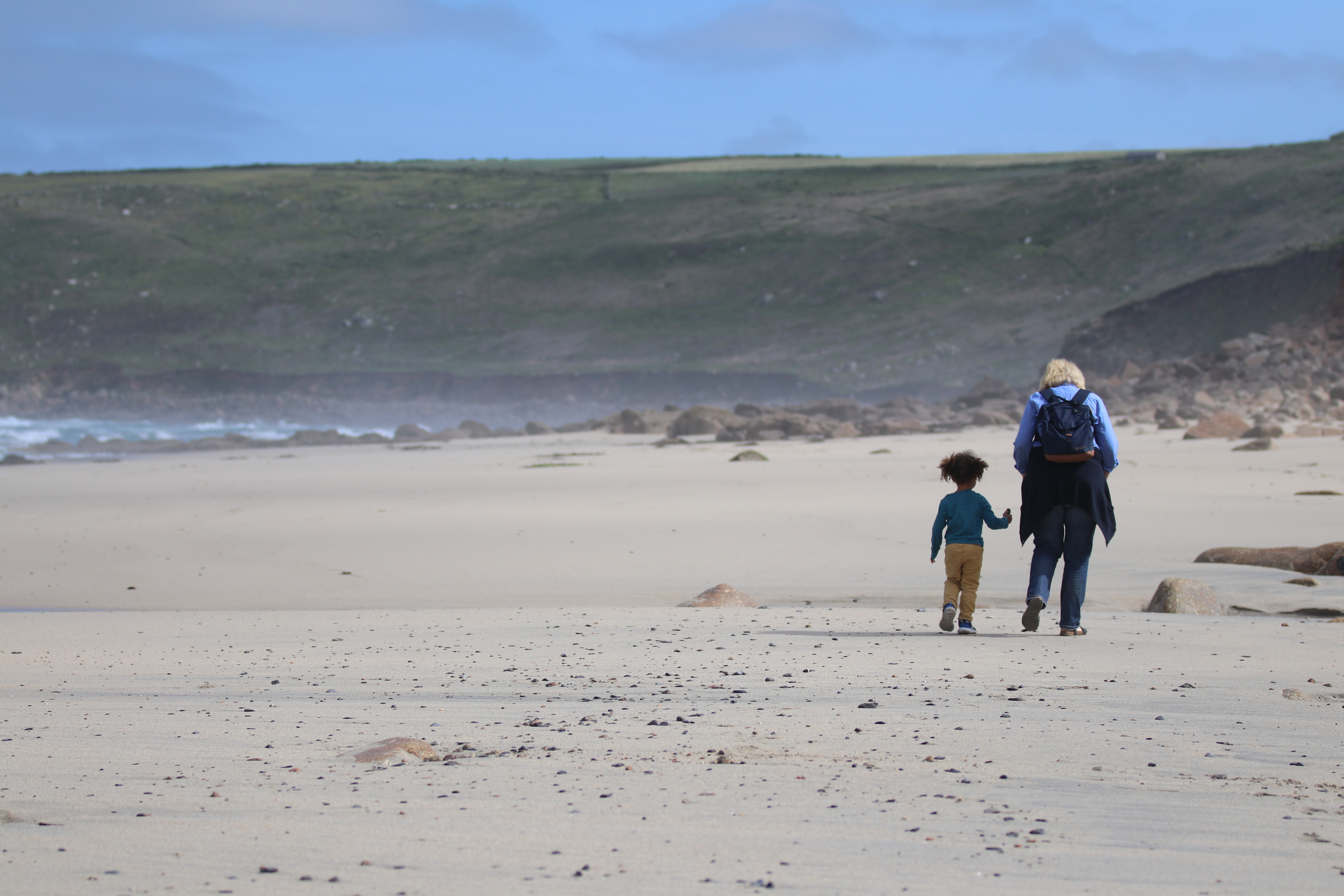 Walking along Sennen Beach in Cornwall This photo was taken by Tom Corser and is © Tom Corser 2020. This photo may be reproduced under the terms of the Creative Commons Attribution-ShareAlike 3.0 Unported Licence [1] (unless otherwise stated). Please credit this photo Tom Corser If using this photo, make sure you properly credit and specify the licence that this photo is licensed under. (E.g. "Photo by Tom Corser Licensed under Creative Commons Attribution-ShareAlike 3.0 Unported Licence: If you would like to use this photo under a different license, please contact me via or . Attribution: Tom Corser